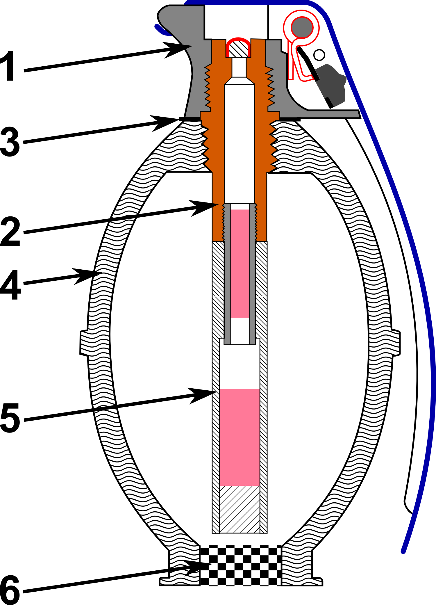 Cross-section drawing of german training handgrenade DM48